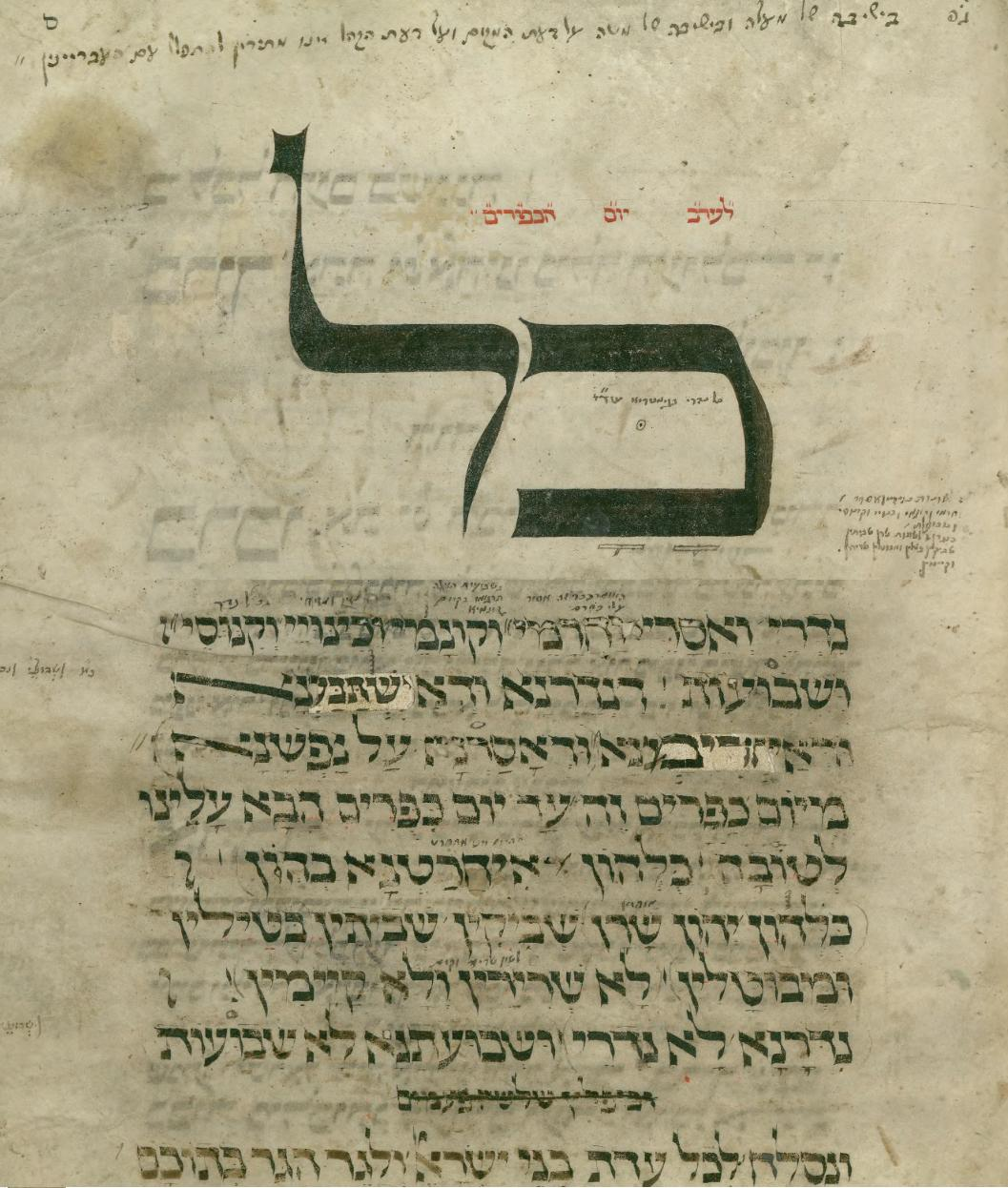 Kol nidre in the machzor of Worms